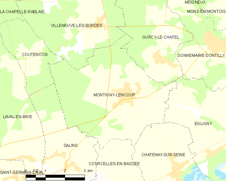 Map of French municipality Montigny-Lencoup